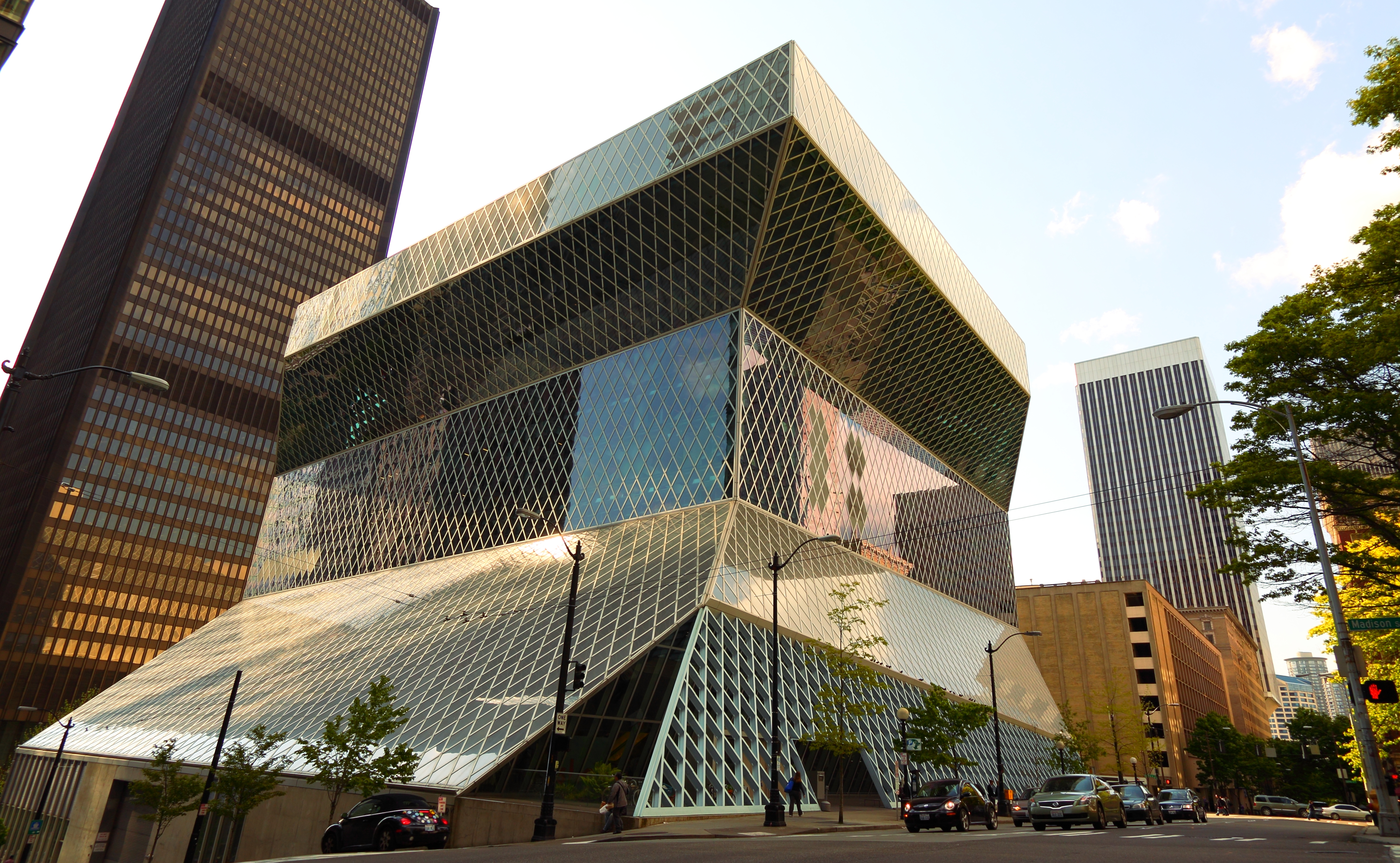 Seattle Central Library looking west from 5th Ave and Madison St.